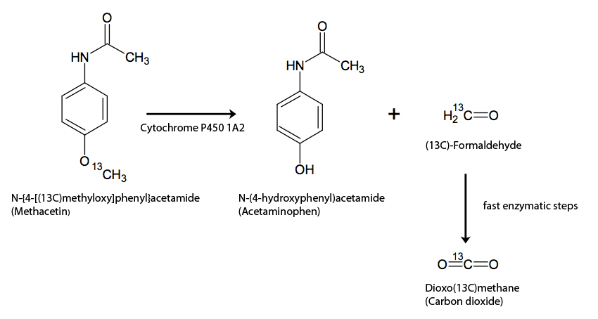 C13-Methacetin is metabolized by Cytochrome P450 1A2 to C13-Formaldehyde and Acetaminophen.